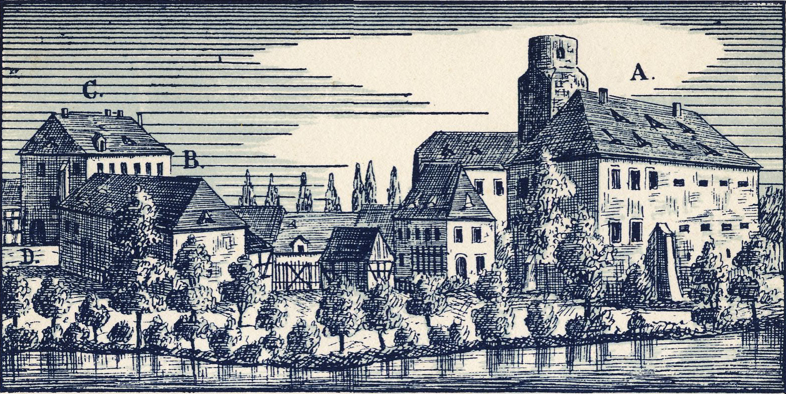 castle of Liebenwerda in 1836